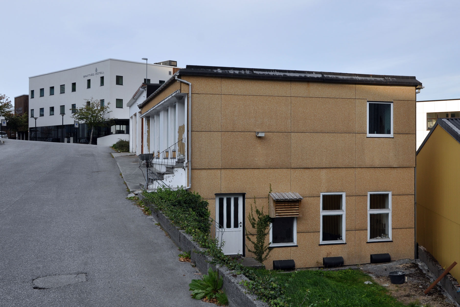 Brattvåg Hydroelectric Power Station in the center of Brattvåg. The power station itself is located in the basement. On the 1st floor there is office/shopping room.